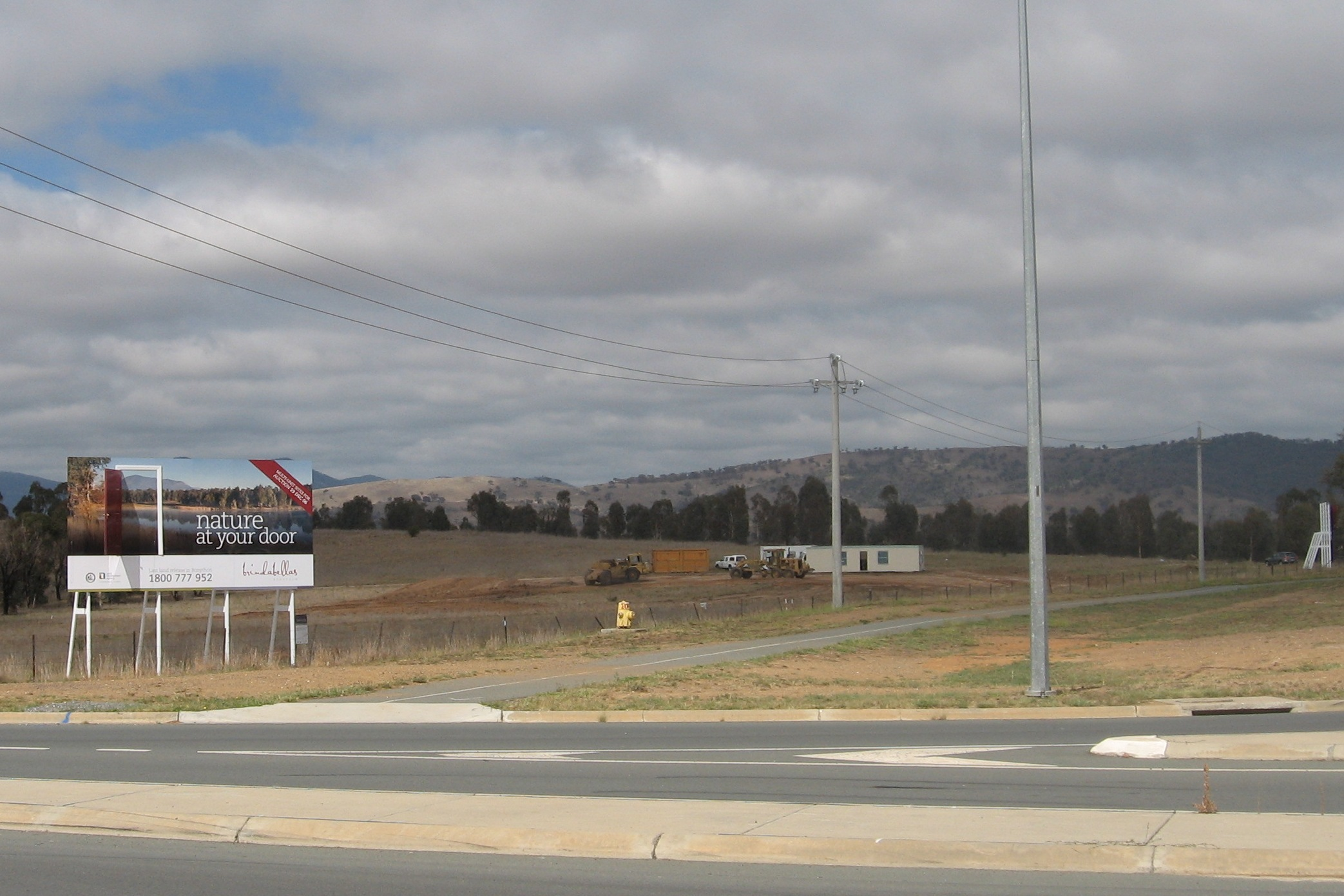 I took this photo myself